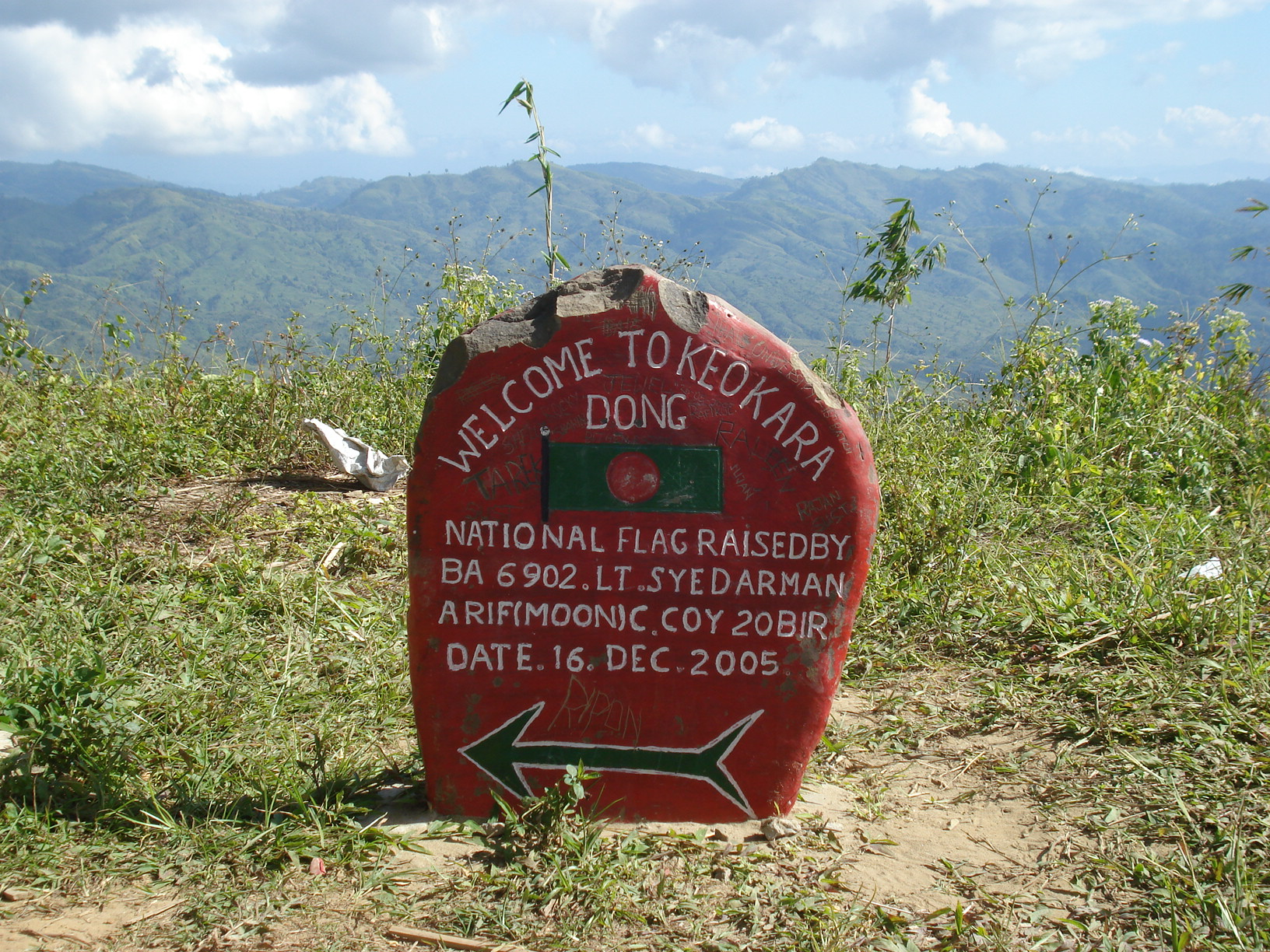 Marker placed on the top of Keokradang in December 16, 2005 by Bangladesh Army